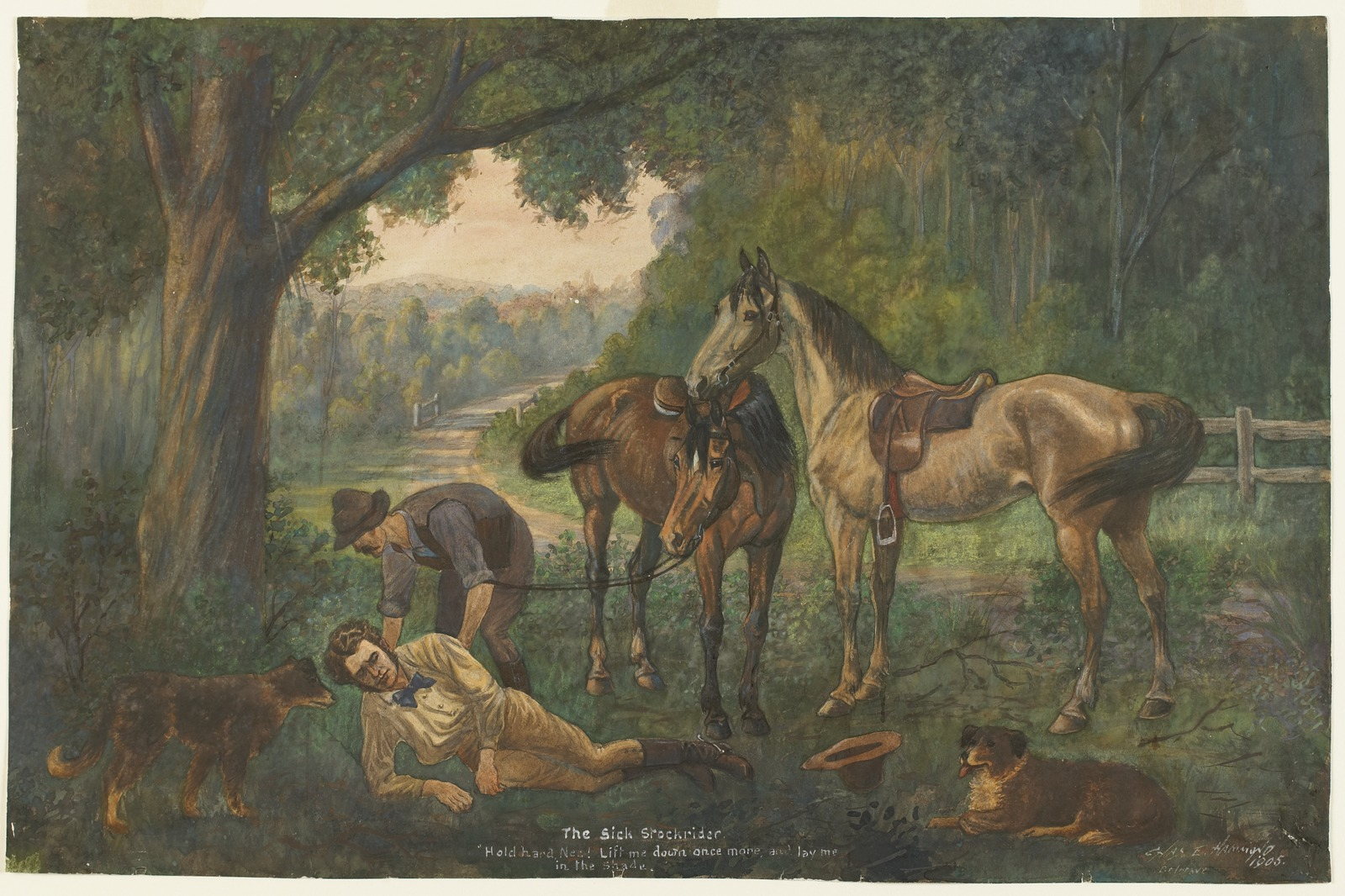 The Sick Stockrider, painting : watercolour, ink, pencil and gouache on cream paper ; 36.7 x 55.6 cm.